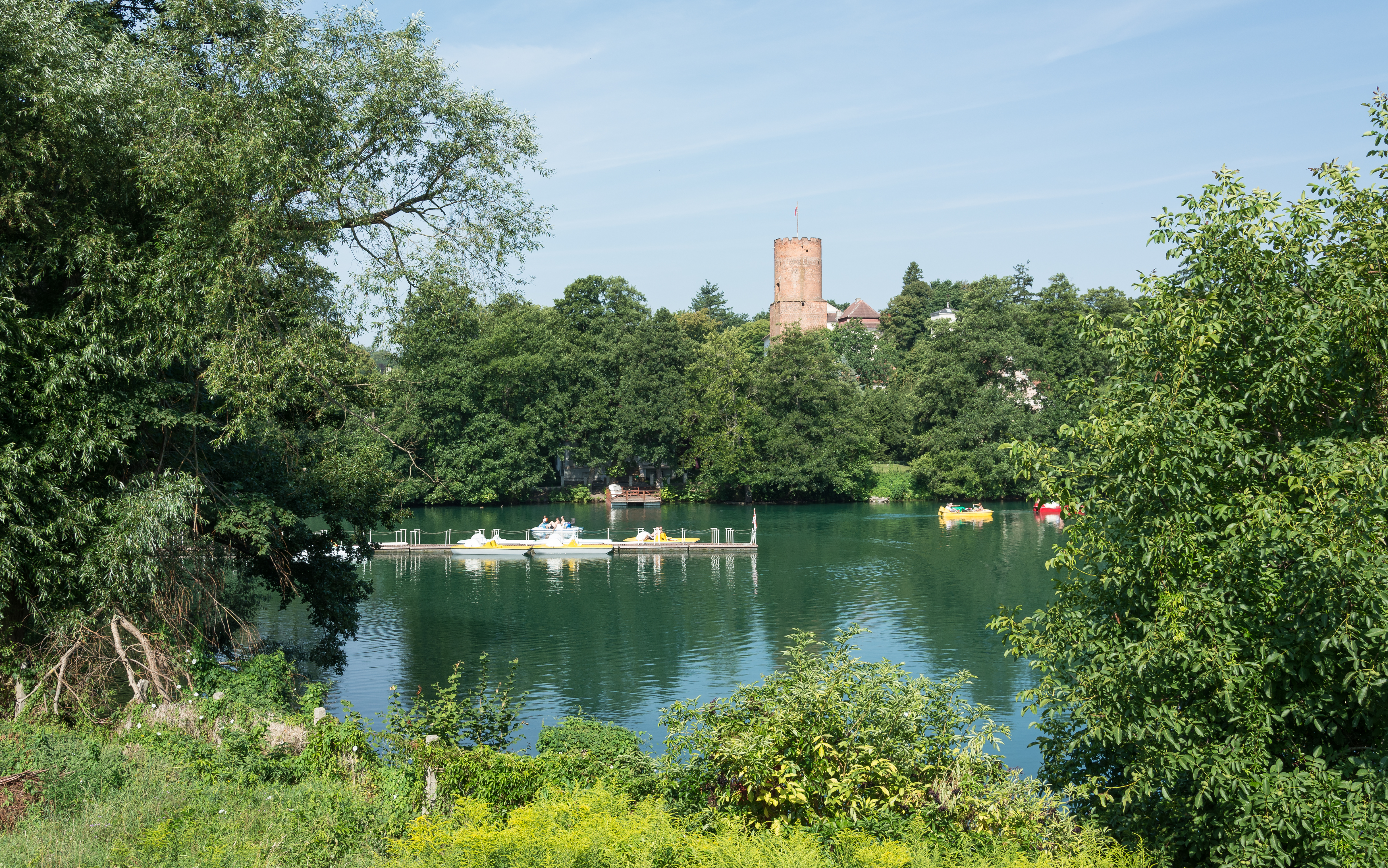 Trzesniowskie Lake This is a photography of protected area with CRFOP ID PL.ZIPOP.1393.PK.5